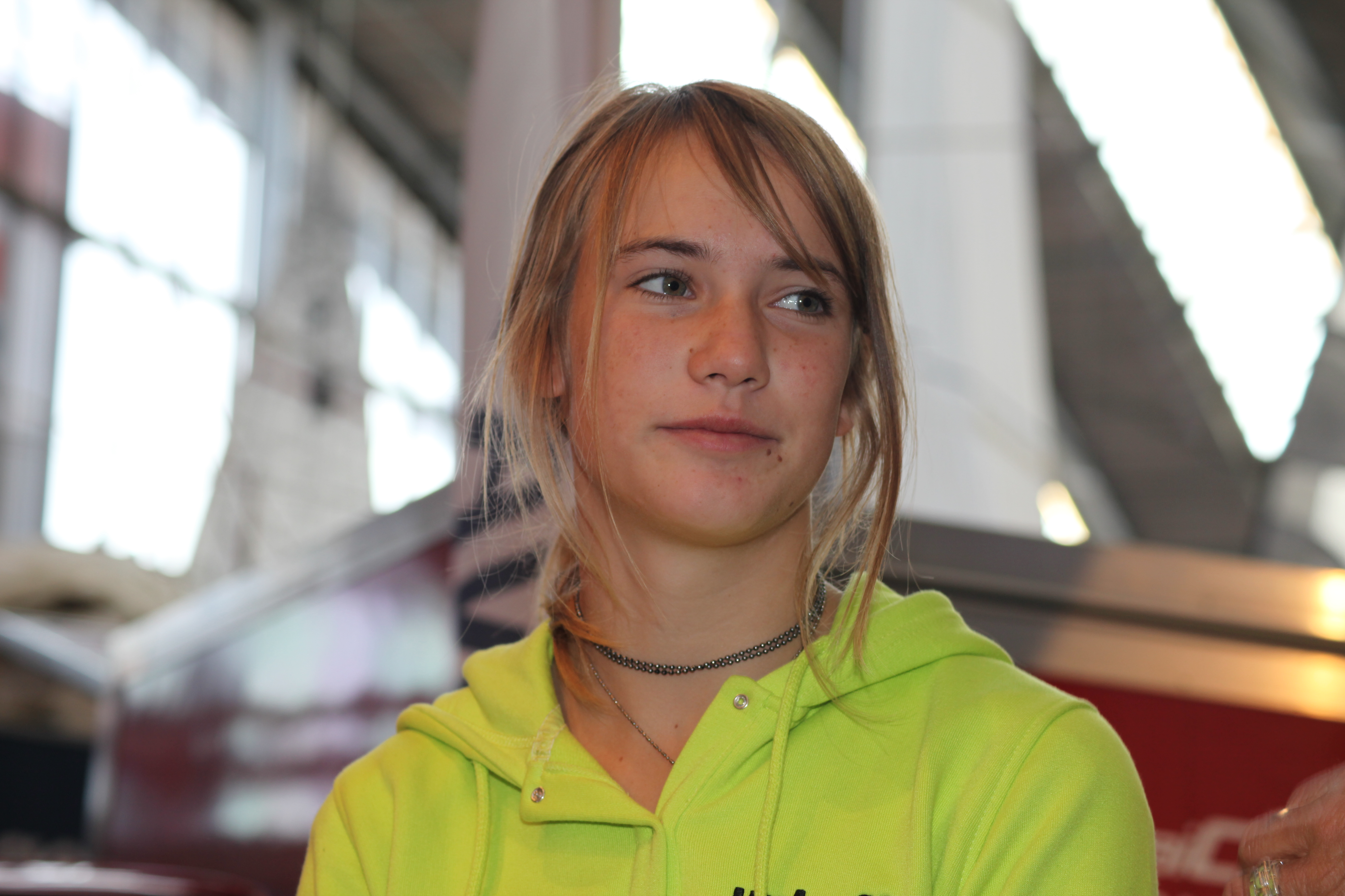 Laura Dekker, speaking at the Hiswa Boatshow, Amsterdam, The Netherlands.